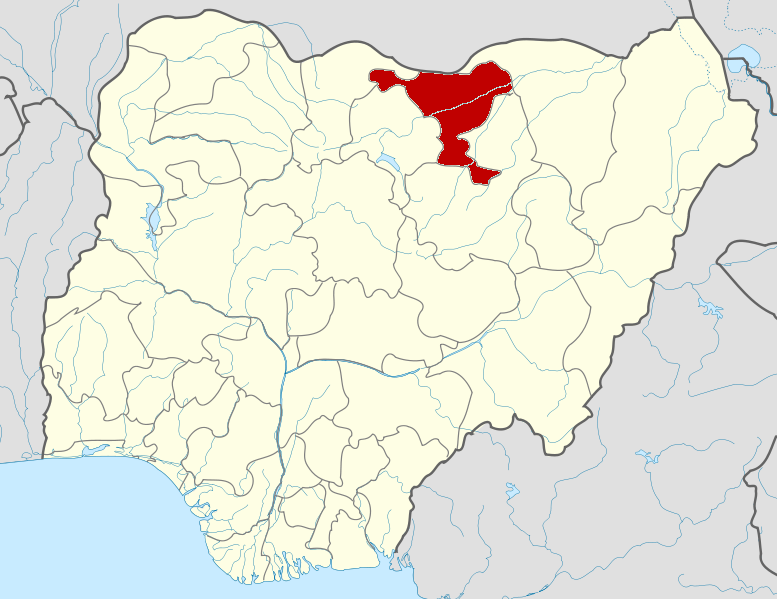 Map locator of Nigeria.